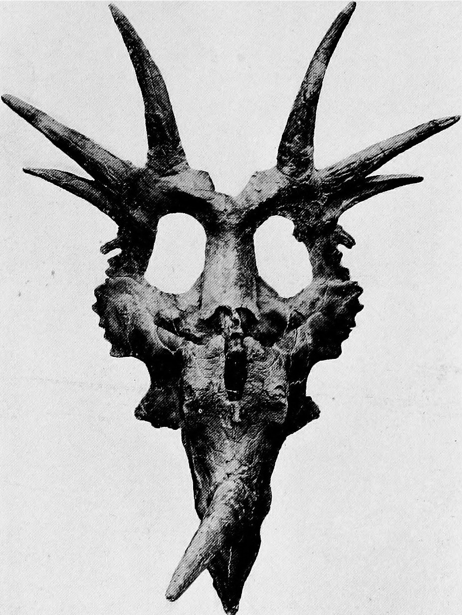 Title: Hunting dinosaurs in the bad lands of the Red Deer River, Alberta, Canada; a sequel to The life of a fossil hunter Year: 1917 (1910s) Authors: Sternberg, Charles H. (Charles Hazelius), b. 1850 Subjects: Paleontology; Dinosaurs Publisher: Lawrence, Kan. , C. H. Sternberg Text Appearing Before Image: ' Text Appearing After Image: Fig. 34.—Top view of Styracosaurus as prepared by Charles H. Sternberg. Page 104.